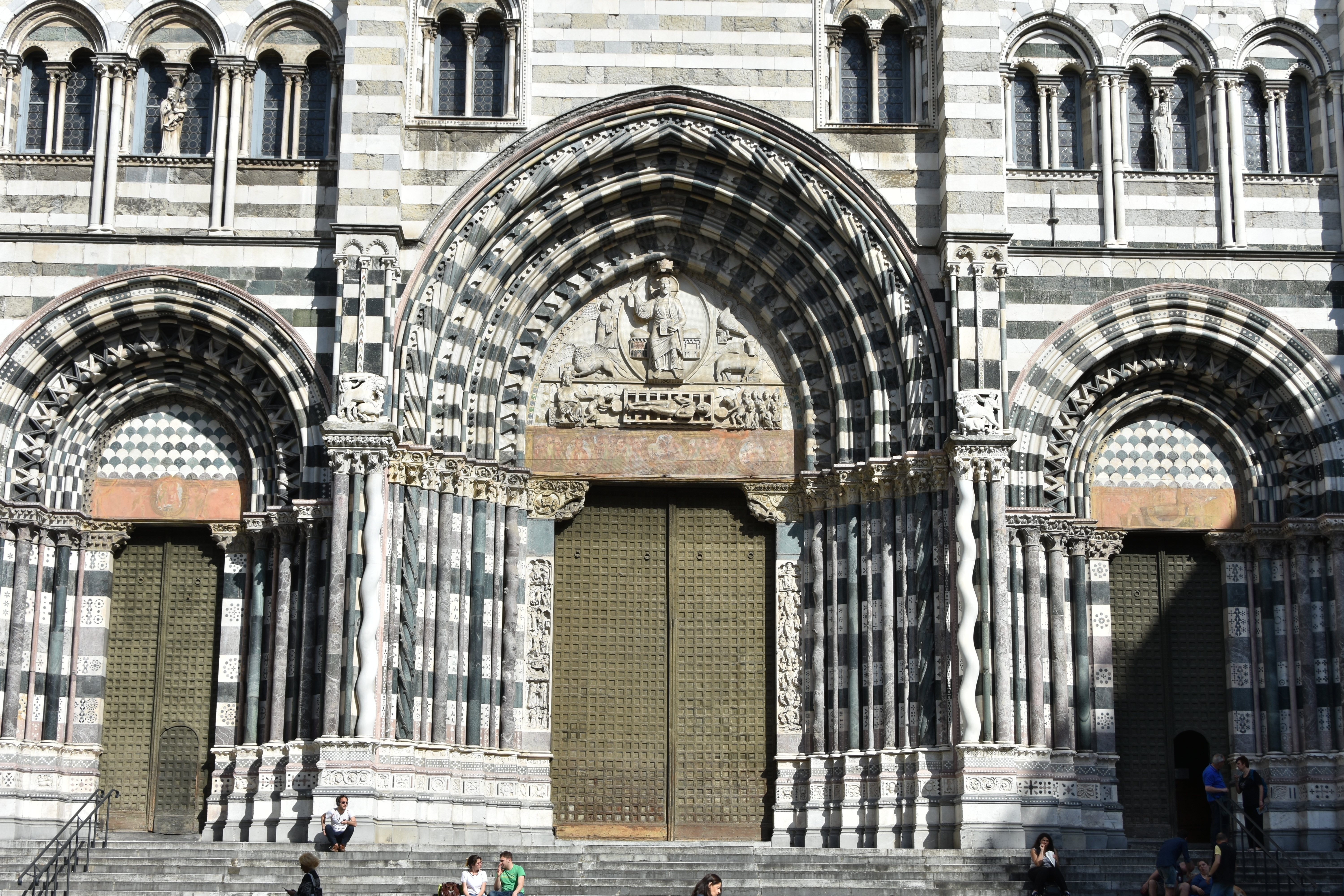 Genoa Cathedral Western facade Portals